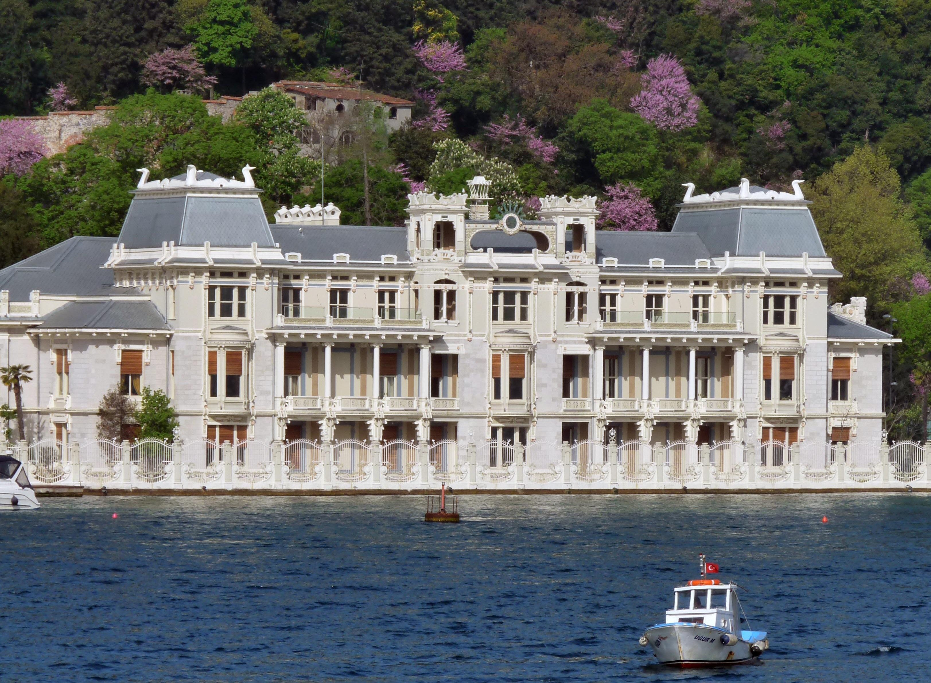 Consulates-General of Egypt in Istanbul